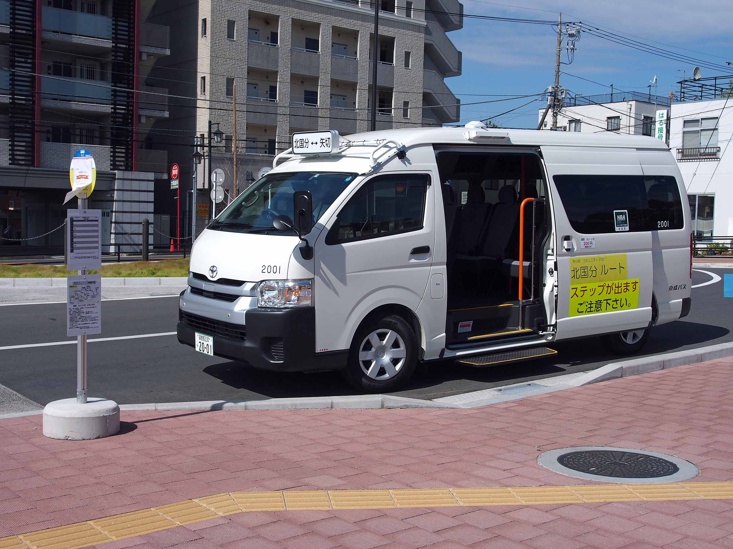 Ichikawa City Community Bus Kita-kokubun Route, stopping at Yagiri Station. Model: Toyota Hiace Commuter License plate: CBN230 U2001